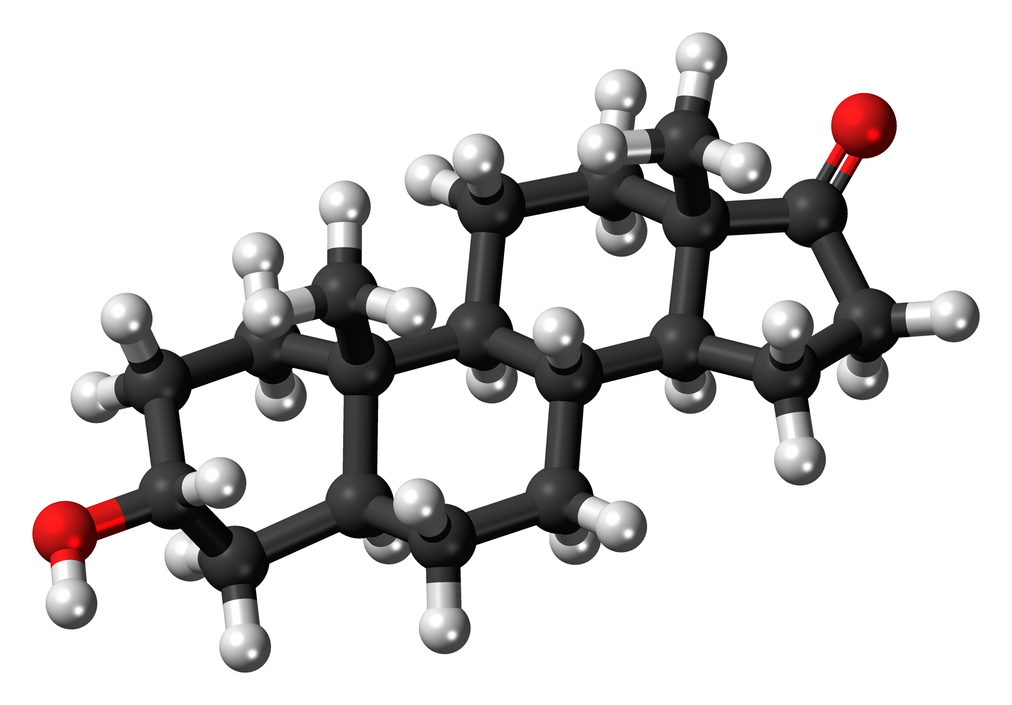 Ball-and-stick model of the androsterone molecule, a steroid hormone. Colour code: Carbon, C: black Hydrogen, H: white Oxygen, O: red